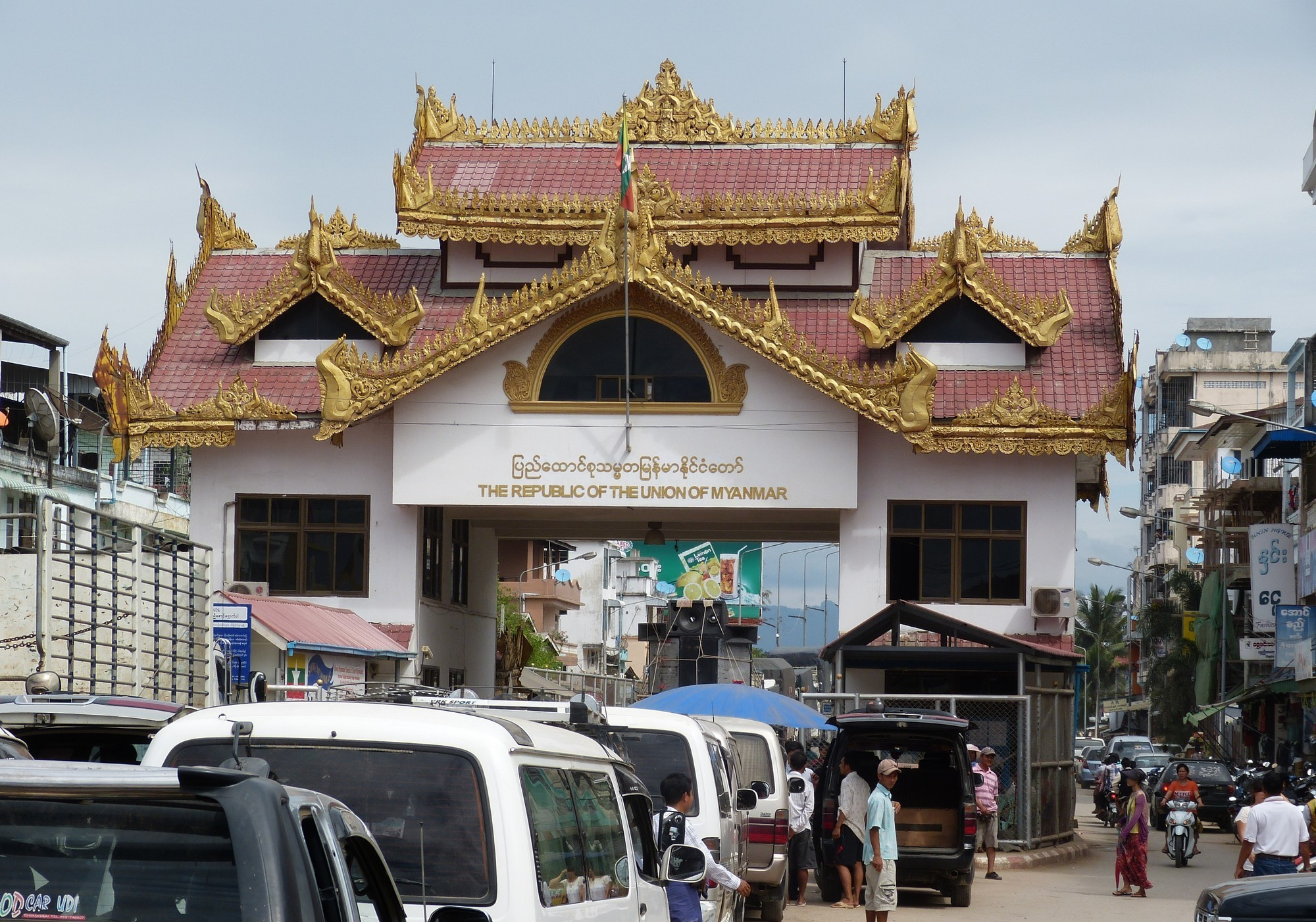 Myawaddy, Myanmar (Burma)